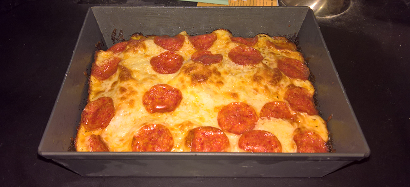 Detroit Style Pizza in Lloyds Detroit Style Pan